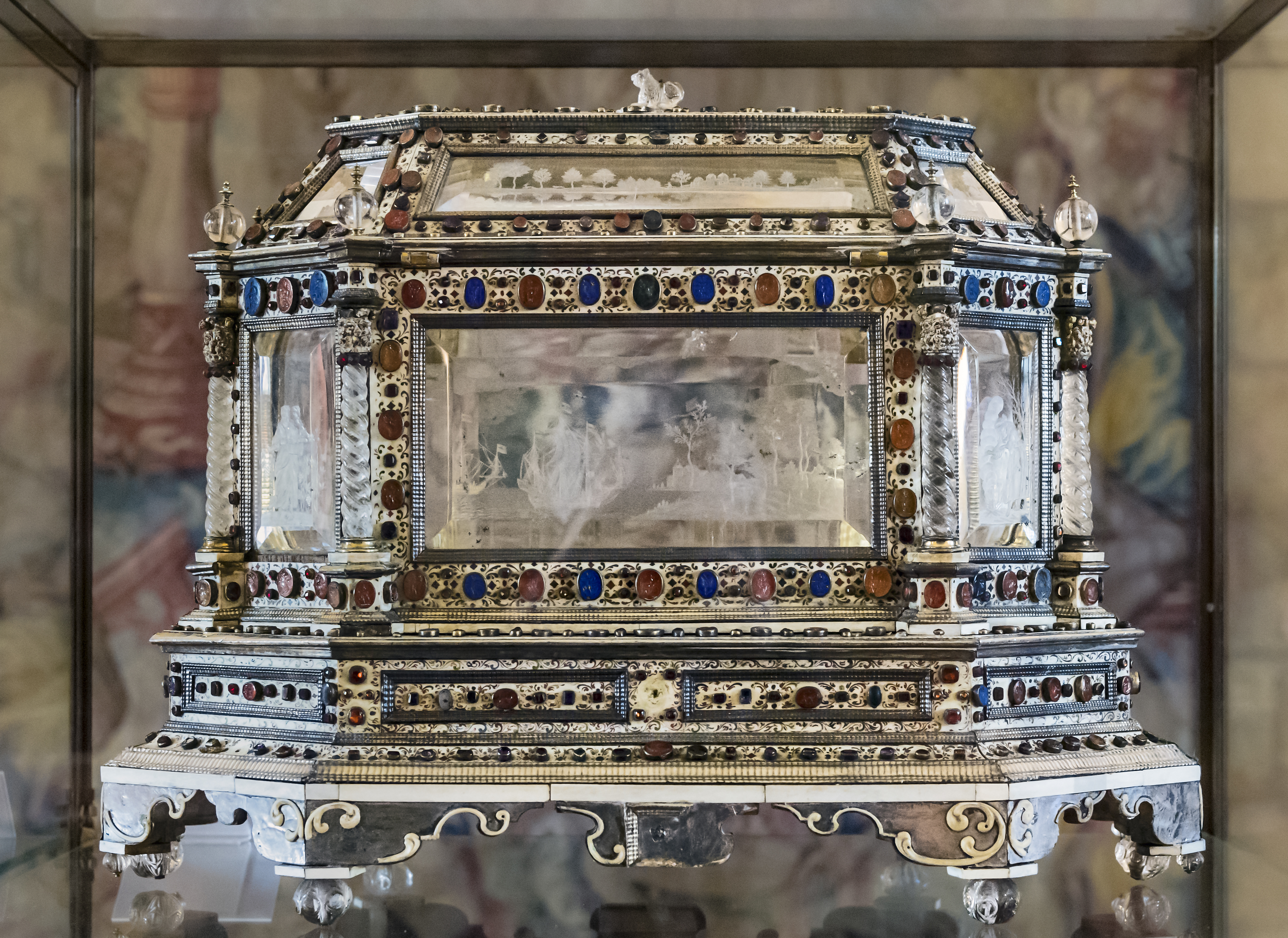 Treasure of the Cathedral Saint-Just-et-Saint-Pasteur Narbonne. Reliquary Shrine of Saint Prudent- Eight-sided wedding dress, in the shape of a house, is made of engraved crystal, embossed silver and ivory painted and inlaid with intaglios (mostly antique) and garnets. It has, for a time, served as a receptacle, to the relics of Saint Prudent. Ninth century. Size: 40 x 56 x 38 cm